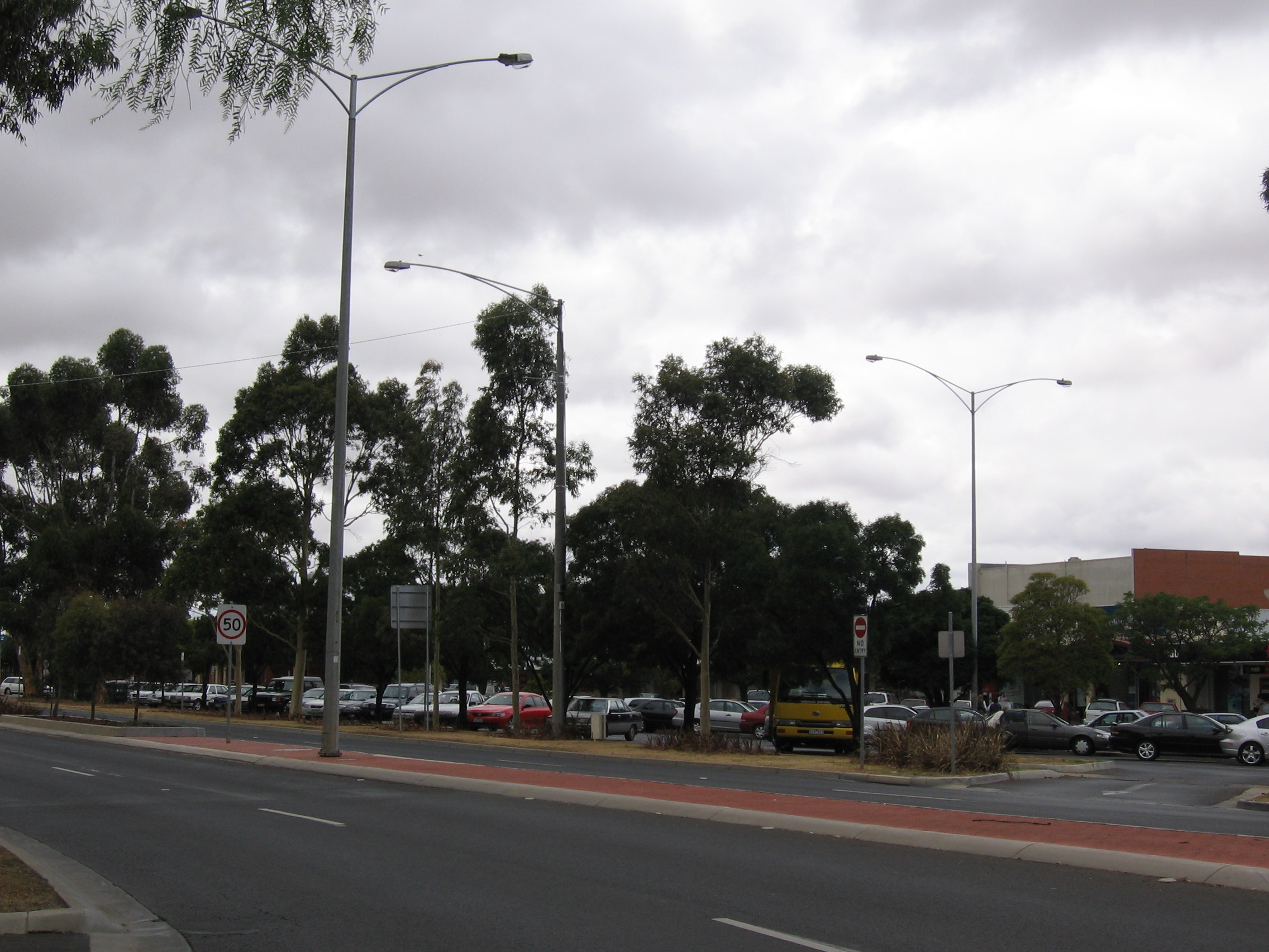 High St, Melton, Victoria.